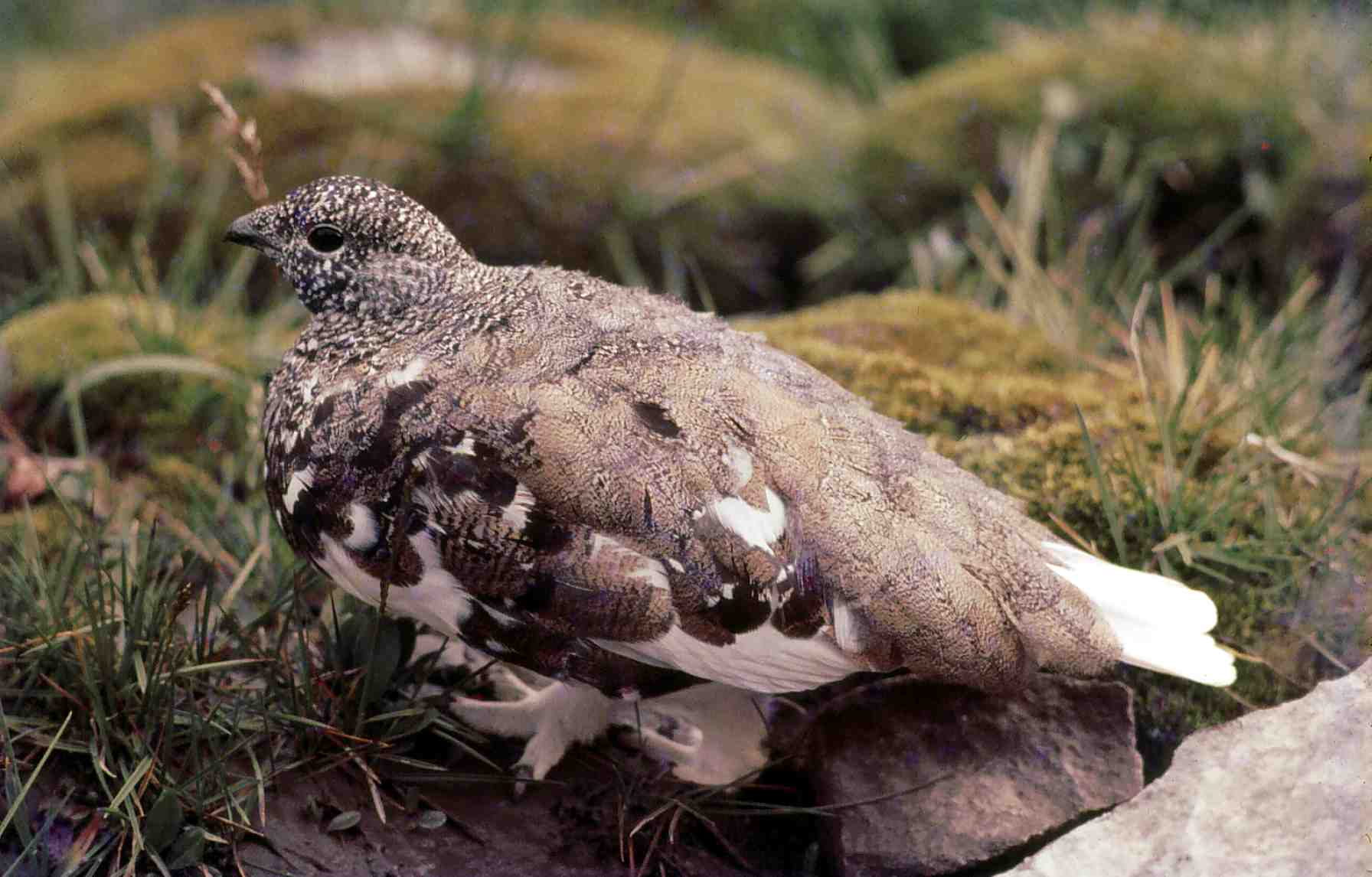 White-tailed Ptarmigan, Rocky Mountains, Alberta